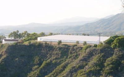 Photo showing Carpinteria Reservoir (California) with rigid aluminum cover